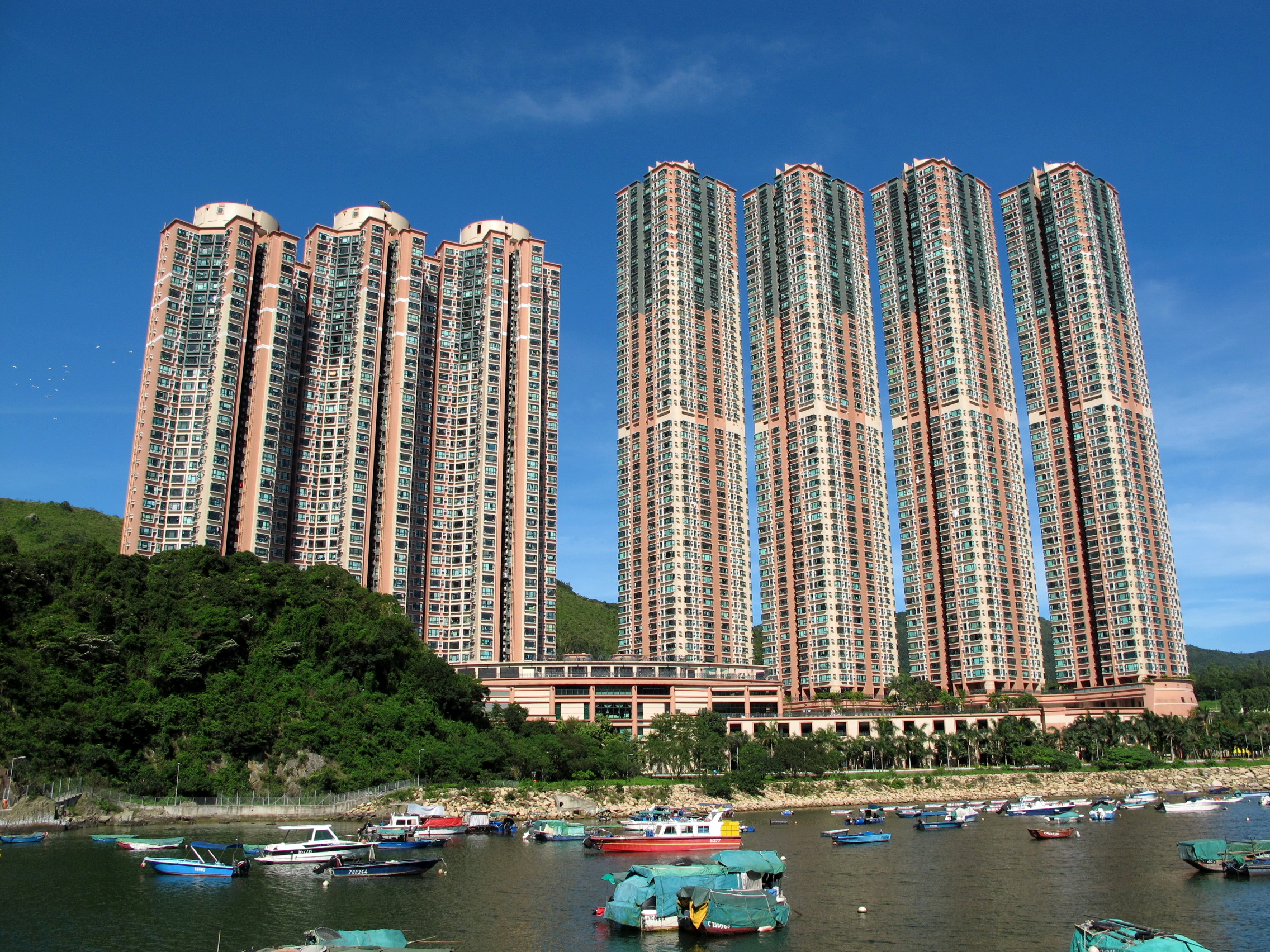 Oscar By The Sea 清水灣半島 (住宅)